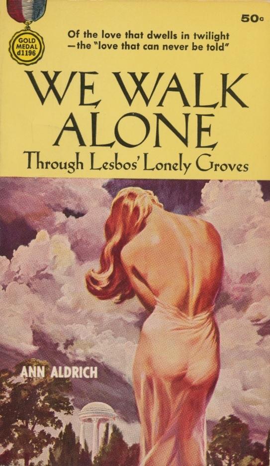 Cover of "We Walk Alone" by Ann Aldrich (Marijane Meaker), 1955. Illustration by John J. Floherty Jr.